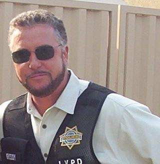 Actor William Petersen